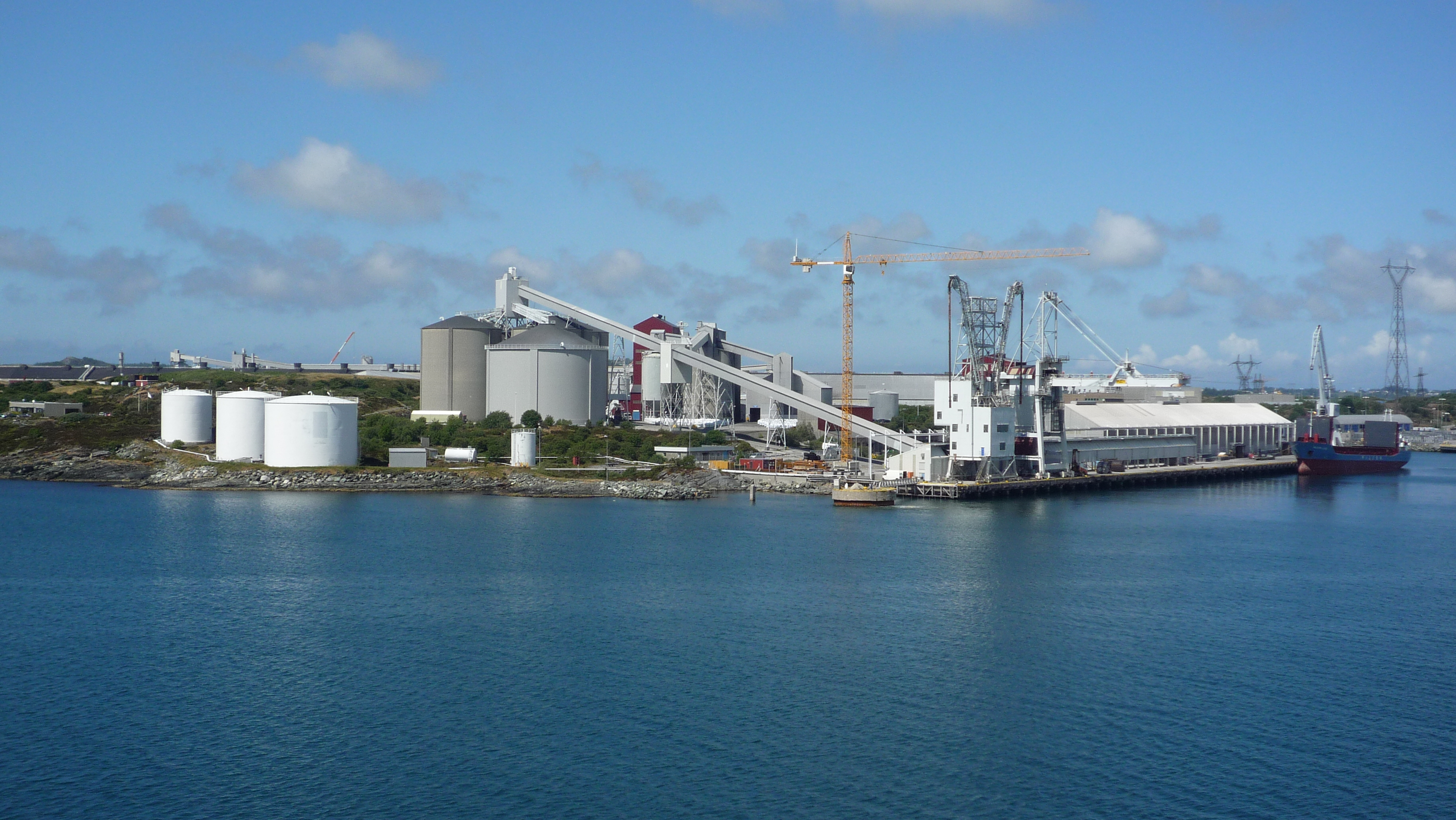 Hydro Aluminium Karmøy: I wondered what was in these silos, grain, aggregate... ?